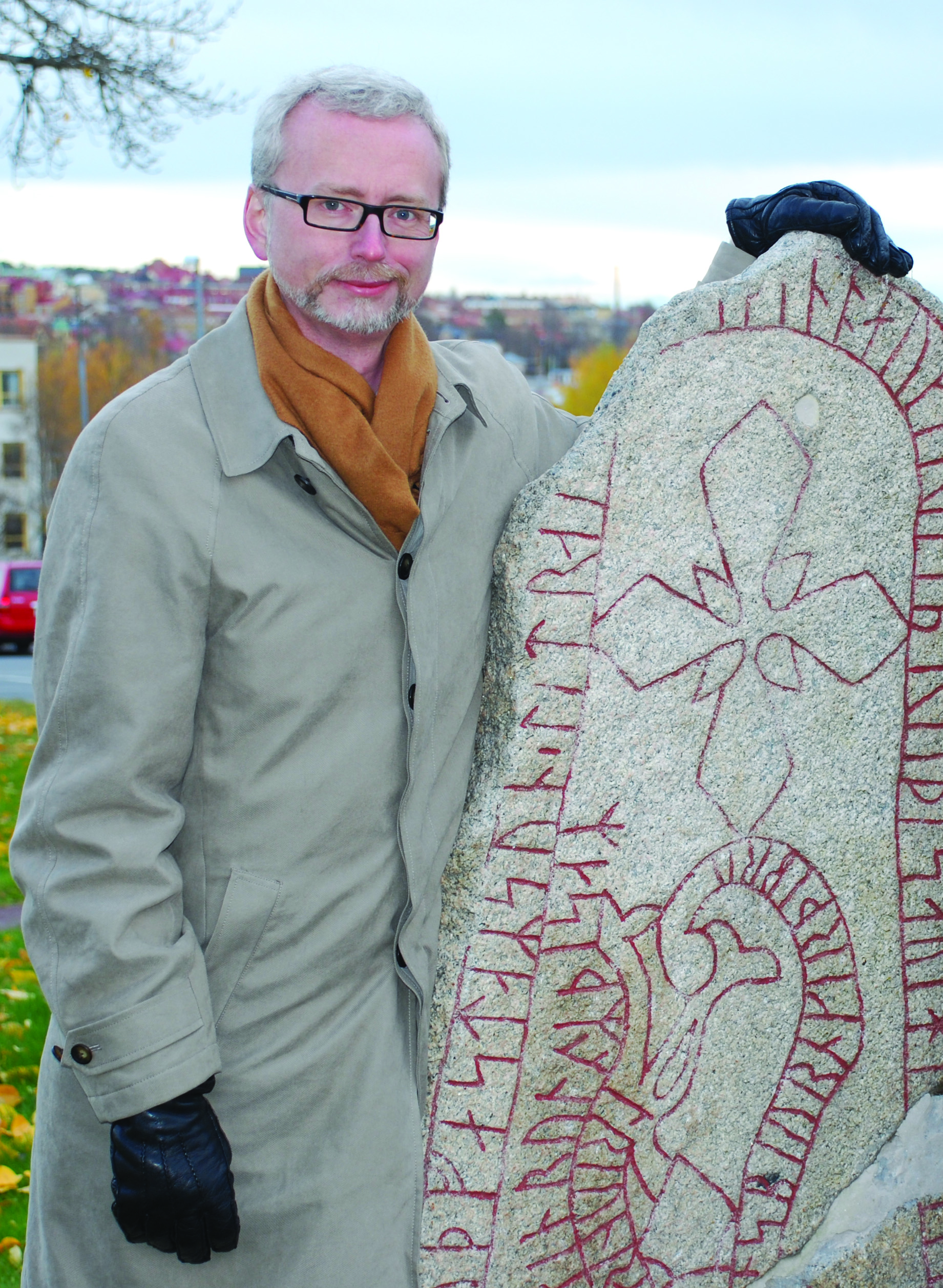 Professor of History Dick Harrison at the Frösö runestone in Jämtland